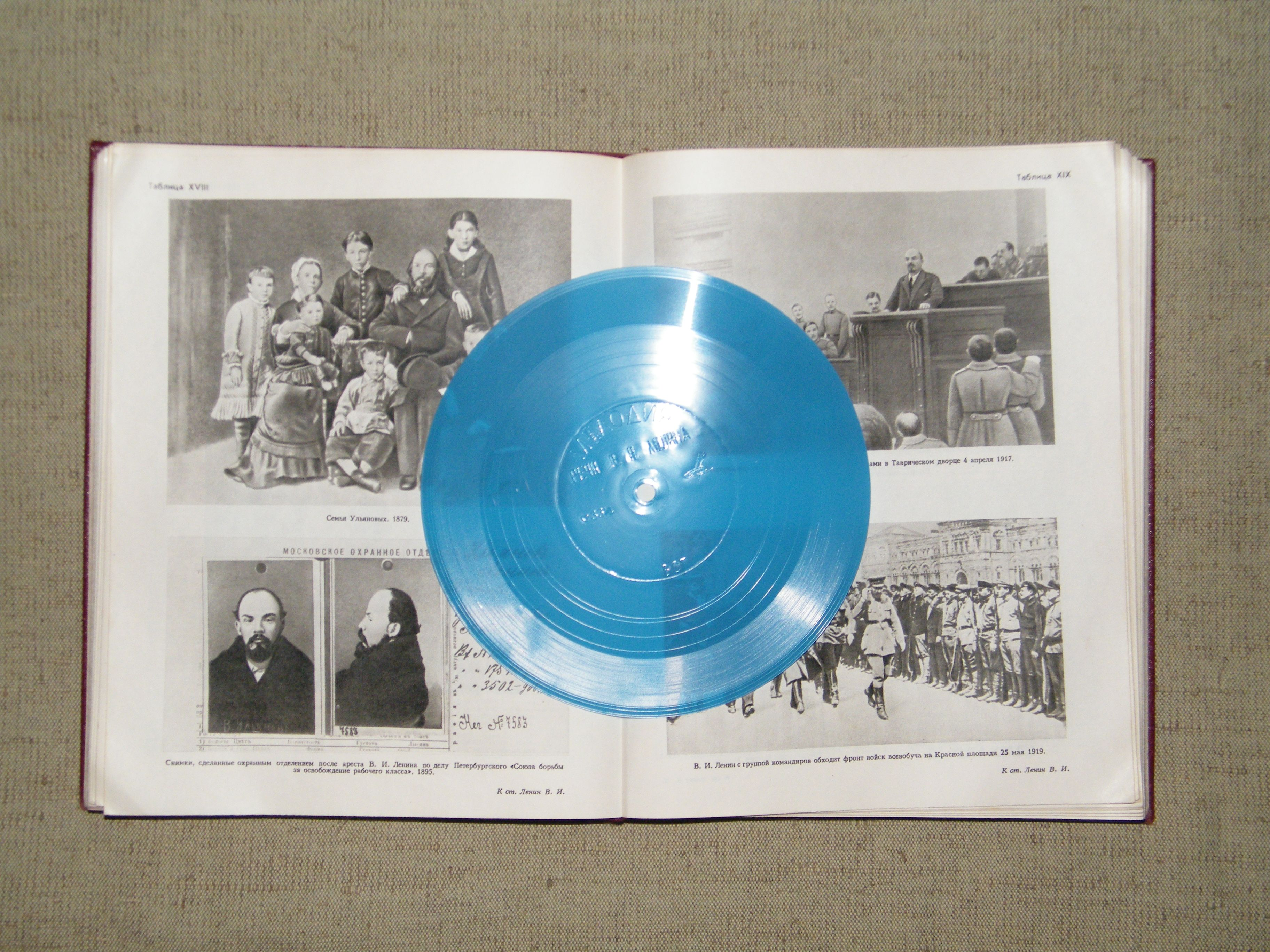 Flexible record — an application to the 14th volume of Encyclopaedia Sovietica with the Lenin’s speeches